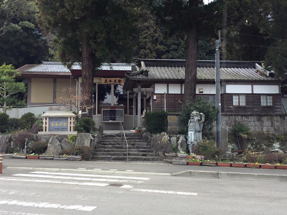 Maki-no-oodu